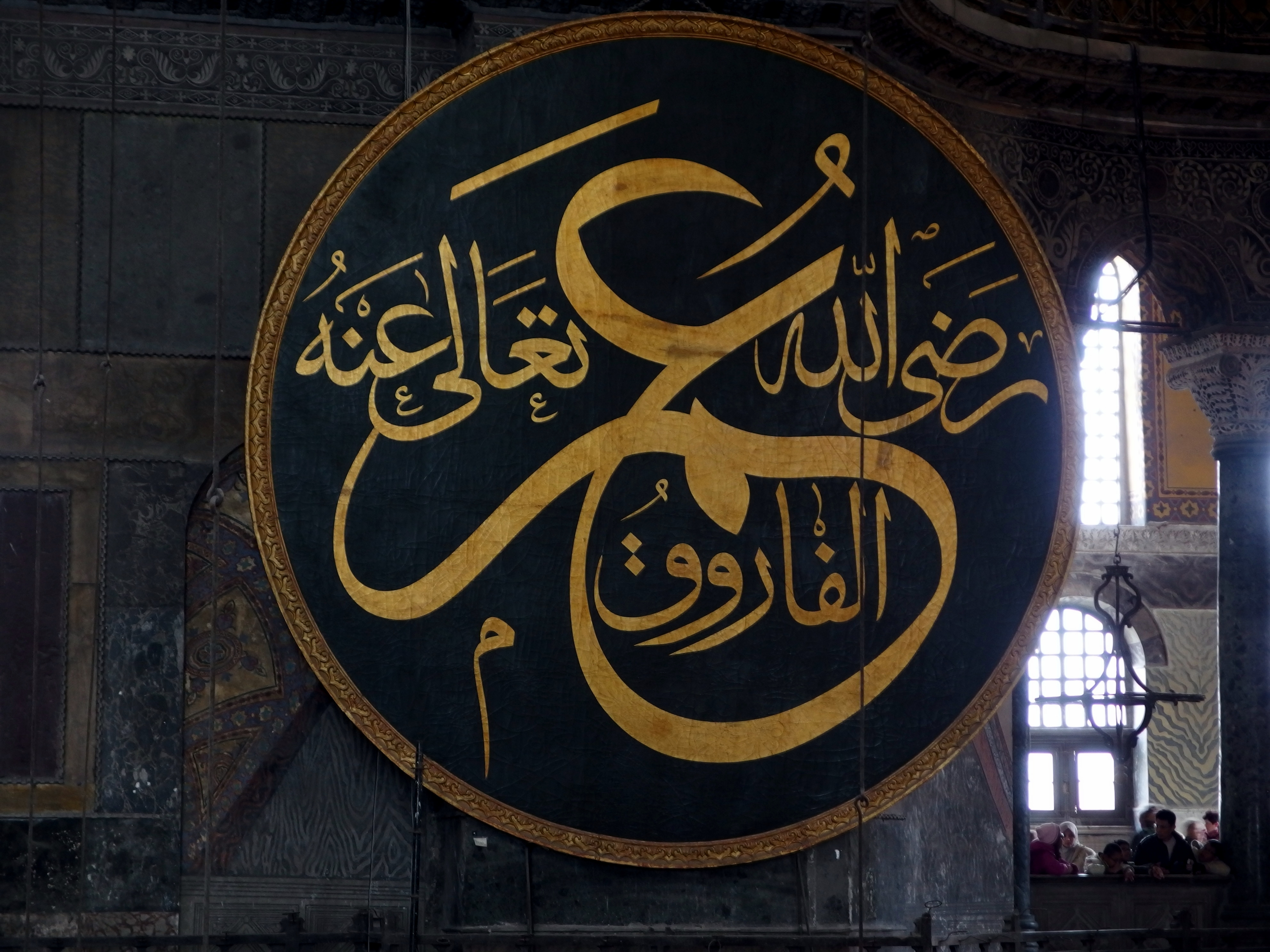 2013-12-03 in Istanbul.